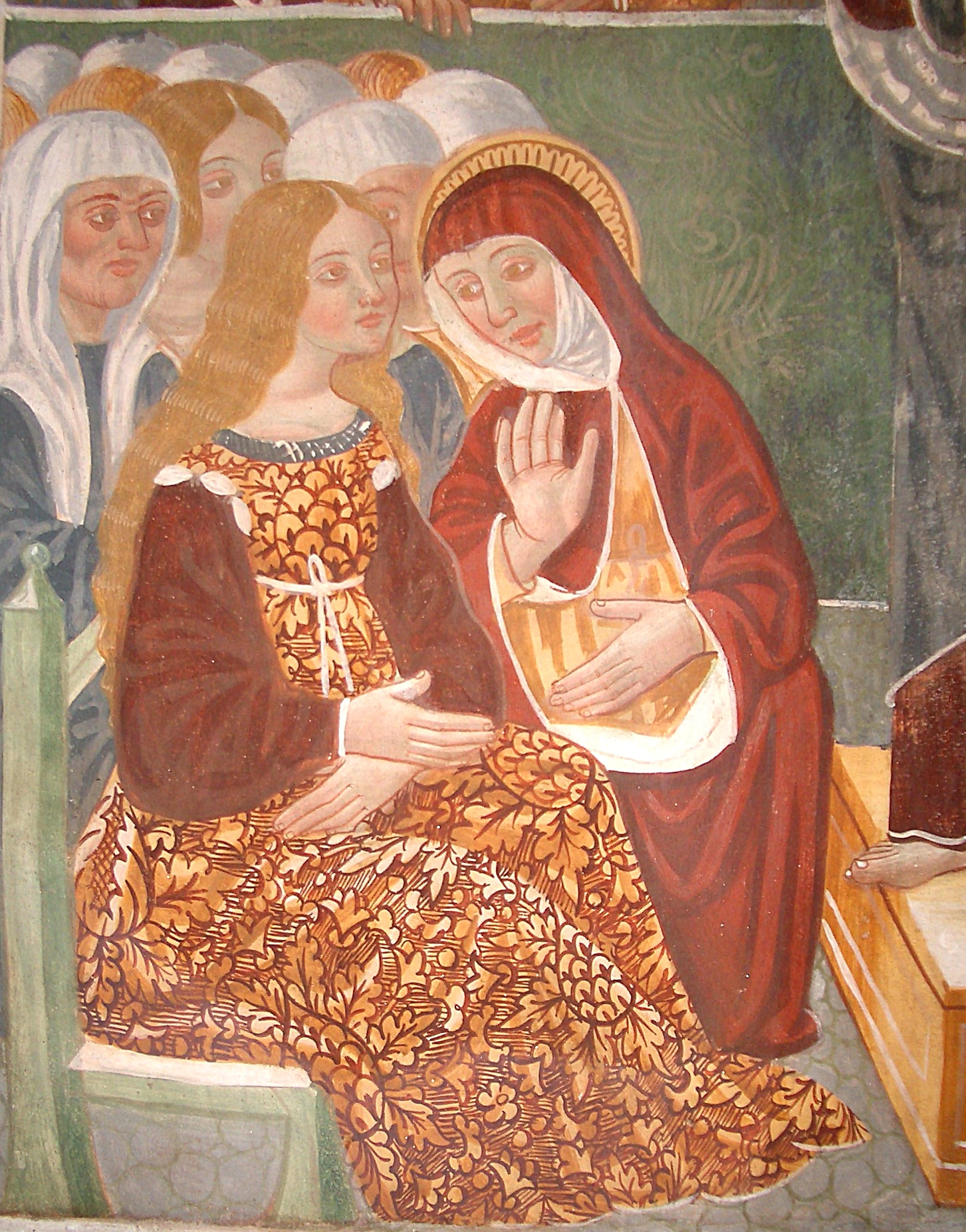 Momo (NO), oratory of the Holy Trinity, The conversion of Mary Magdalen (?), detail, Giovanni and Francesco Cagnola (?), end of XV century - beginning of XVI century